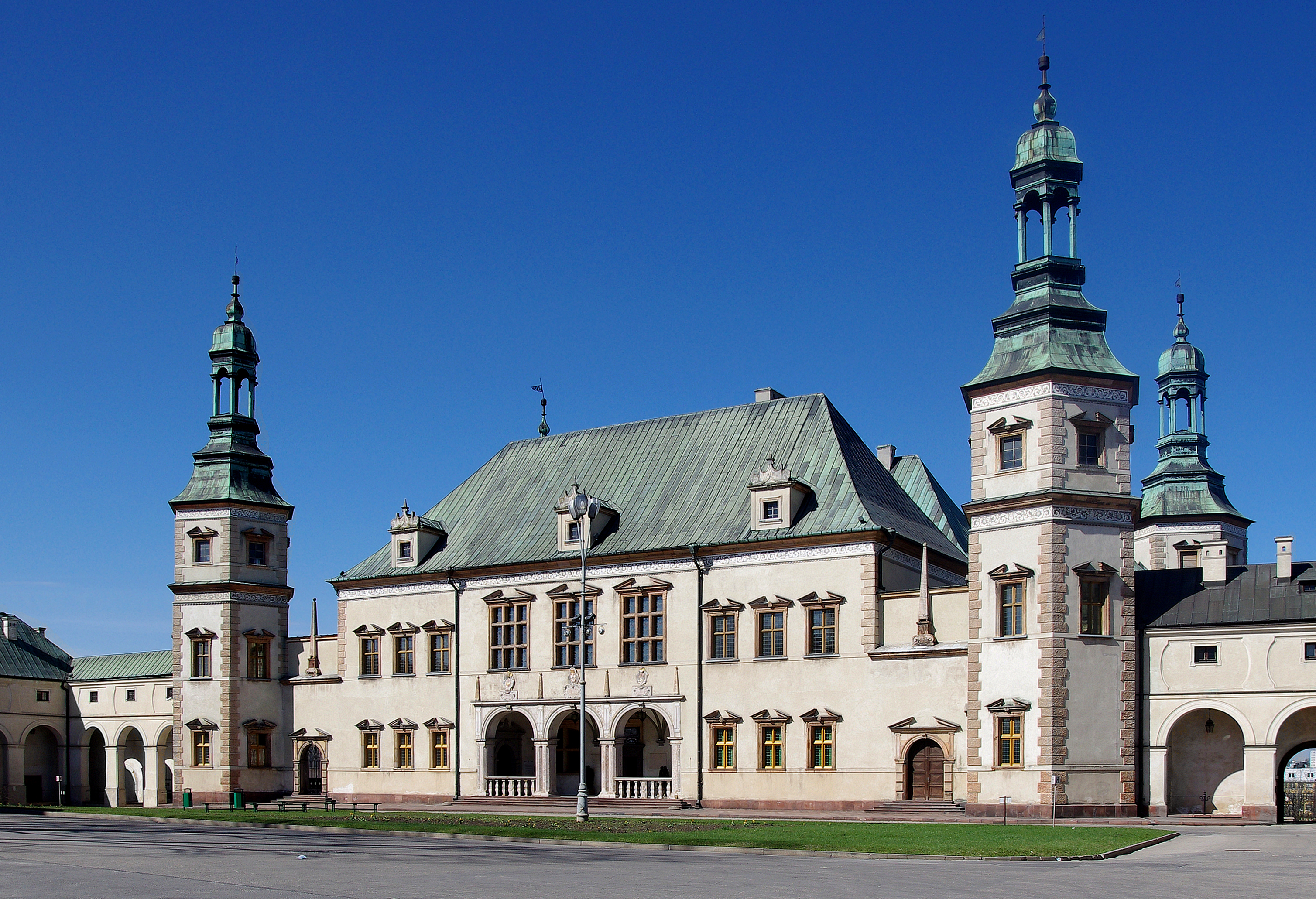 The Late Renaissance Polish Mannerist Palace of the Kraków Bishops in Kielce, in Świętokrzyskie Voivodeship, Poland